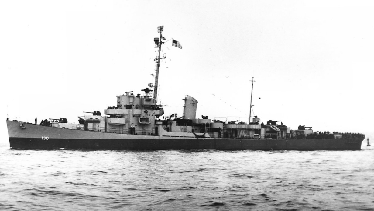 The U.S. Navy destroyer escort USS Jacob Jones (DE-130) underway in 1943.